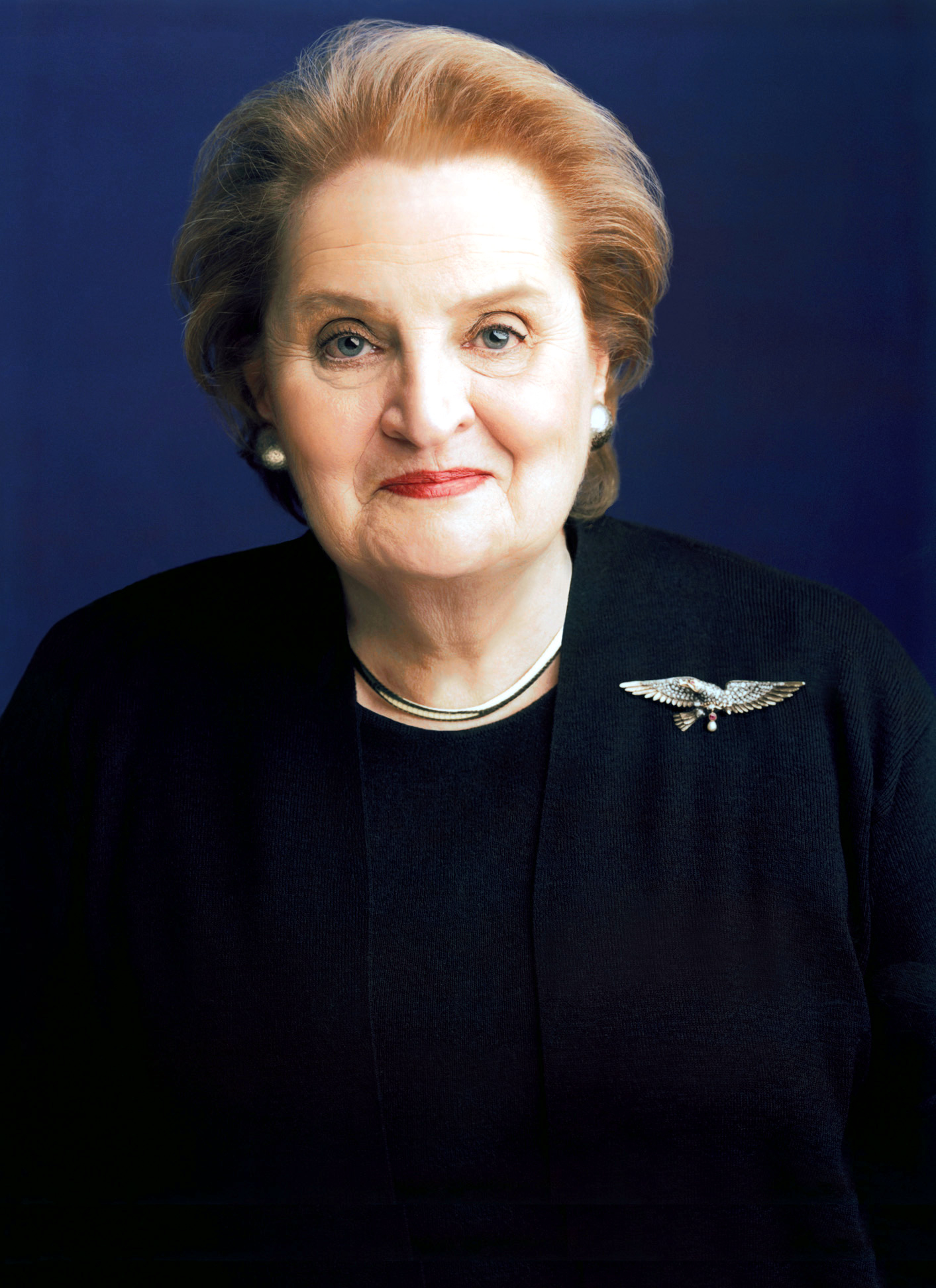 Madeleine Albright, official secretary of State portrait